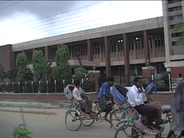 Bangladesh Bank regional office, Sherpur Road, Bogra, Bangladesh.